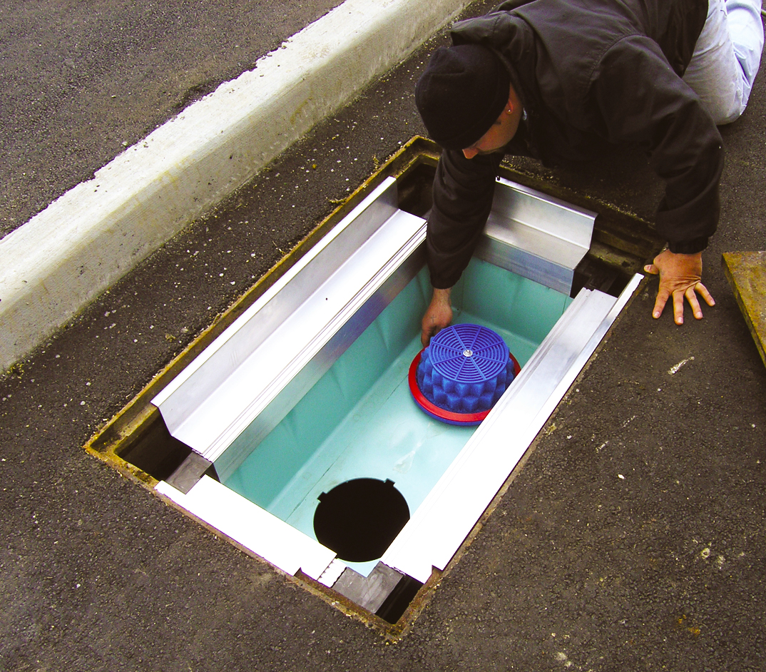 Stormwater Filtration Catch Basin being installed on a curb